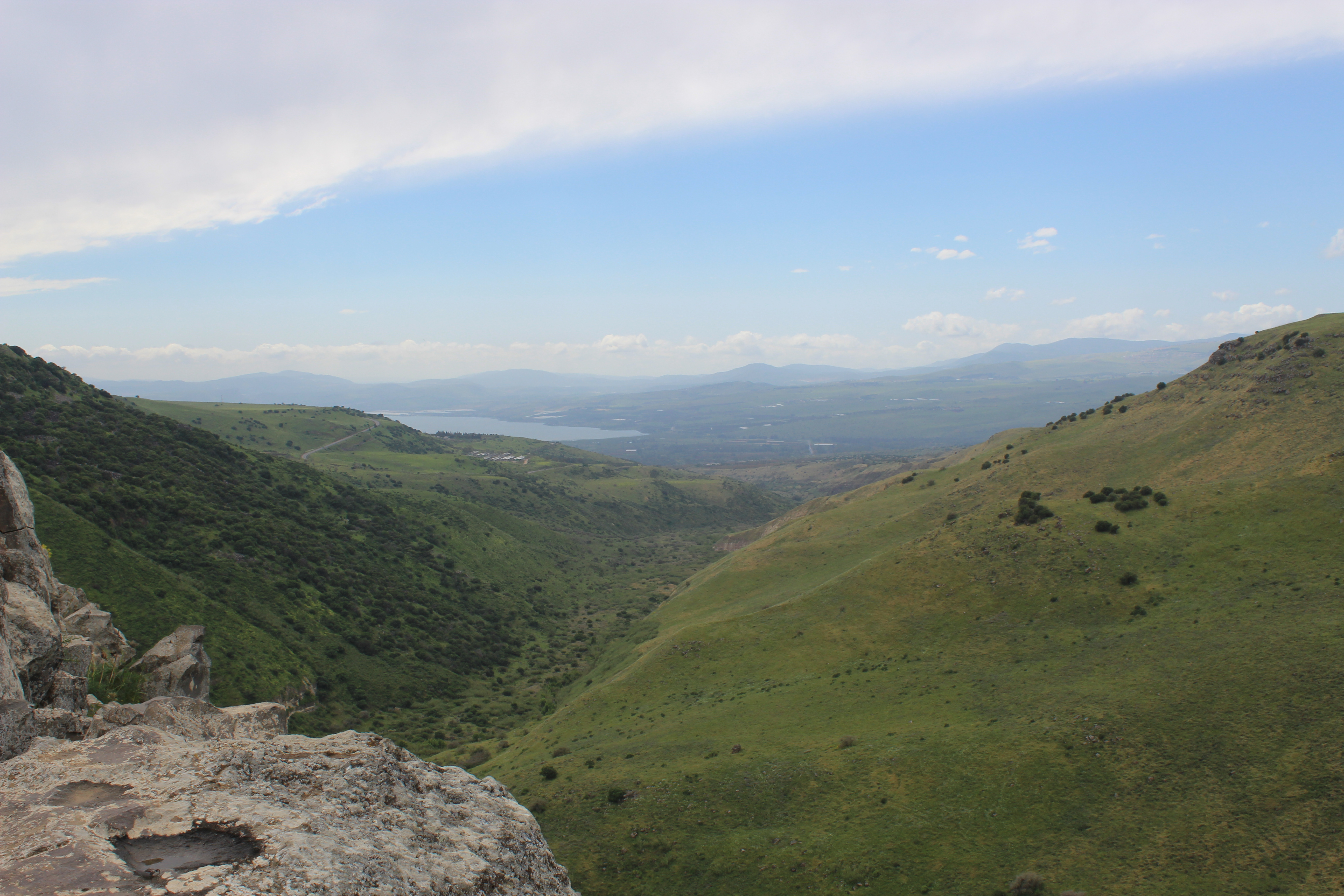 The Sea of Galilee as seen from Gamla